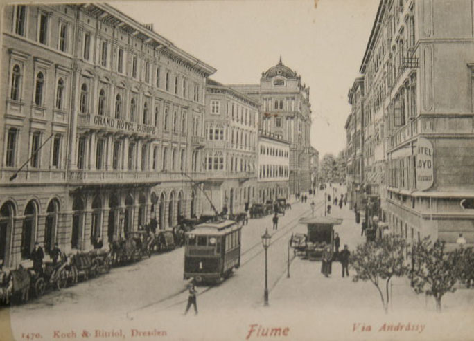 Old tram in Rijeka, Croatia